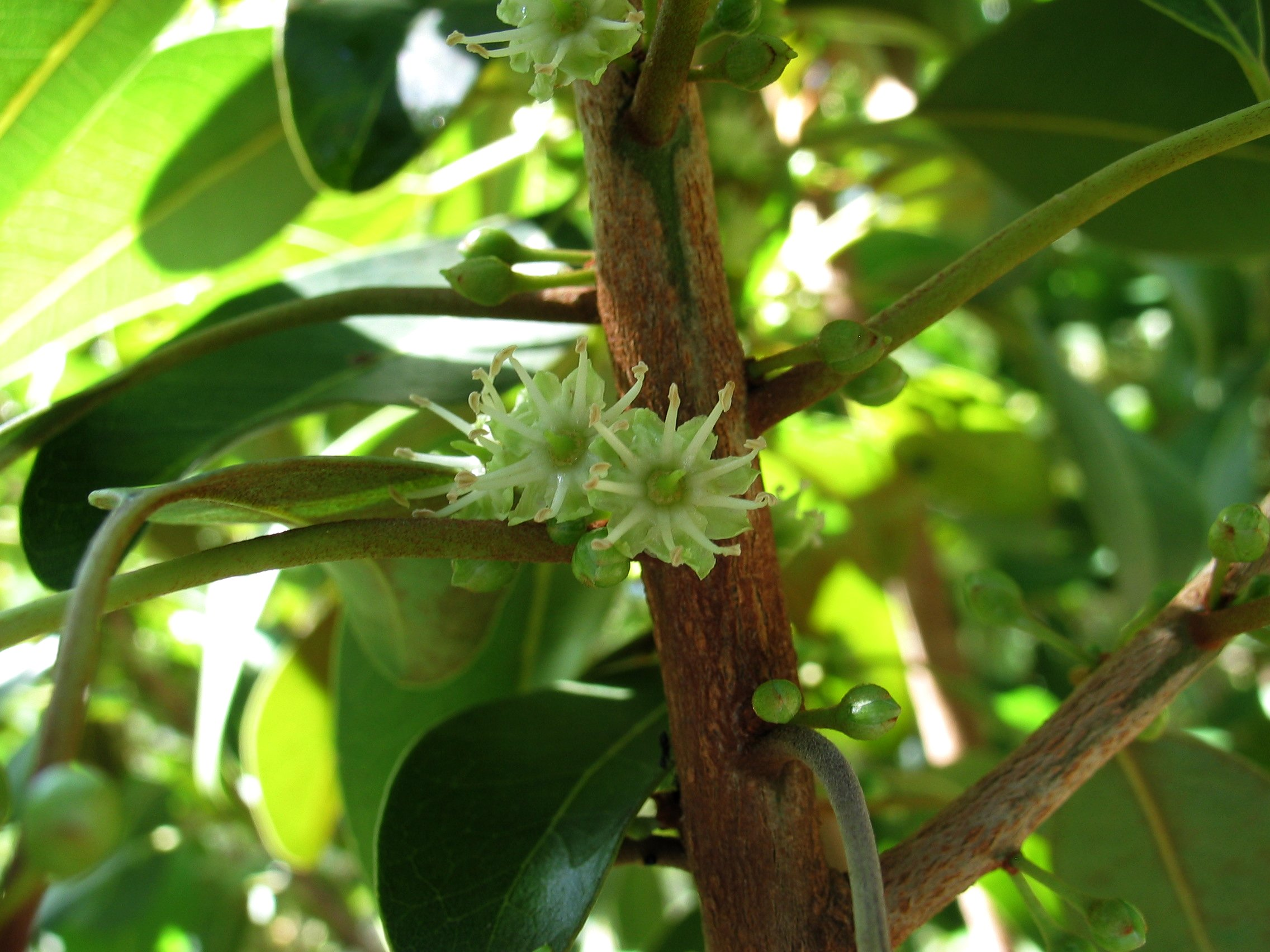 [syn. Nesoluma polynesicum] Keahi, Hawaiian nesoluma, or Island nesoluma Sapotaceae Indigenous to the Hawaiian Islands Uncommon to rare. Oʻahu (Cultivated) NPH00012